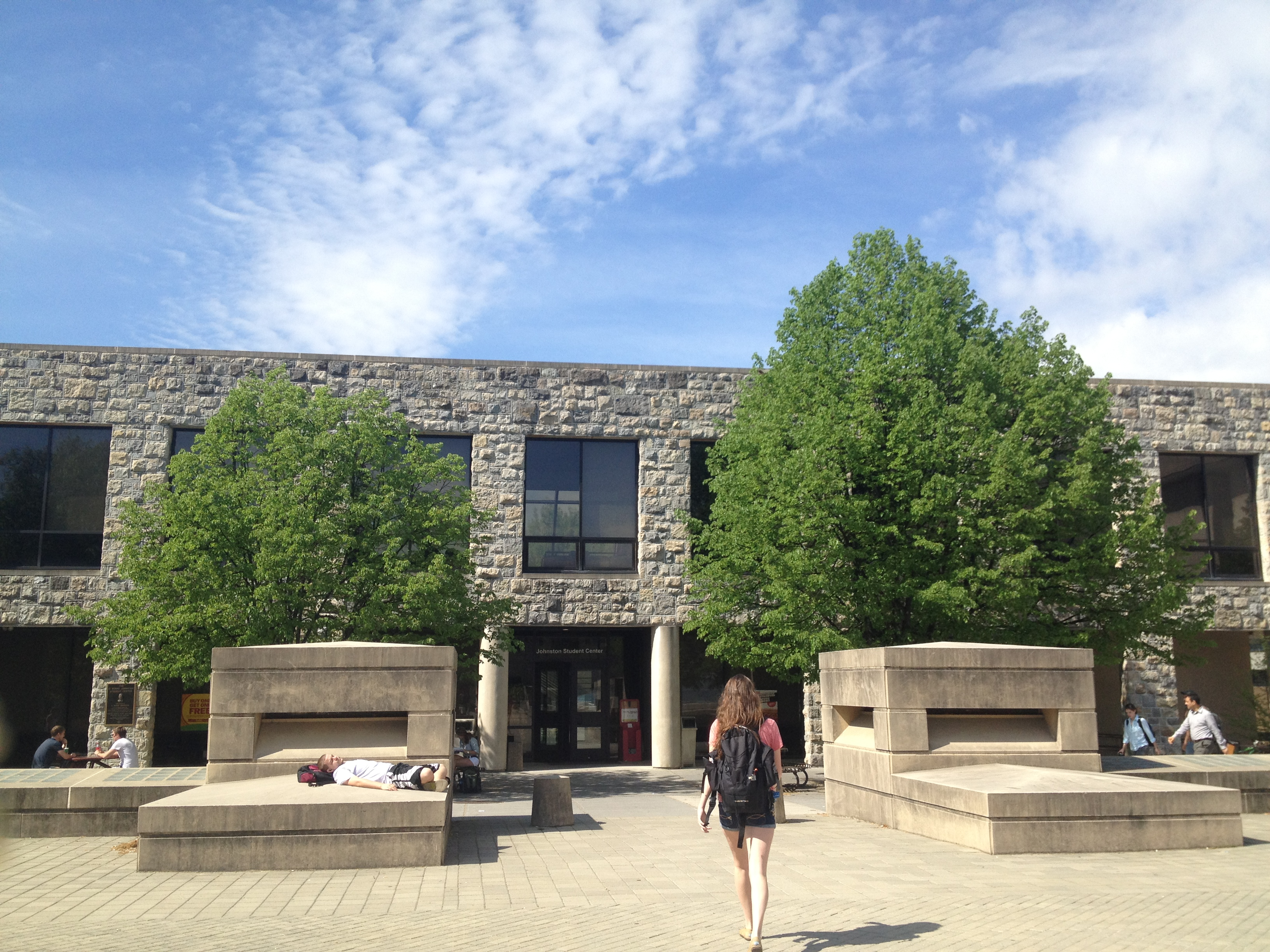 The Johnston Student Center. Virginia Tech, Blacksburg, Virginia